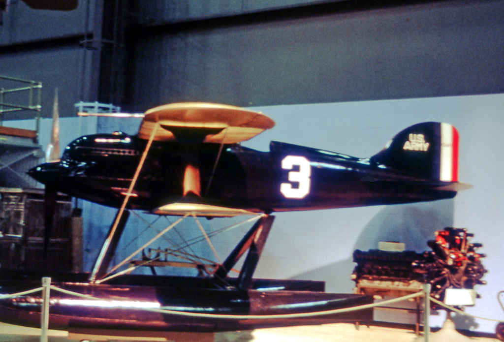 Curtioss R3C-2 racing biplane seaplane A6979